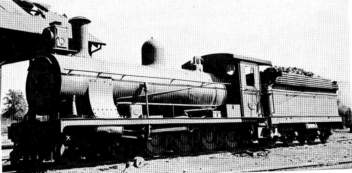 Ex Rhodesian Railways Class 7 (4-8-0) number MR11 (Mashonaland Railways), later MR18, then RRM67 (Rhodesia Railways Northern Extensions), then South African Railways Class 7D number 1353 Builder's Number: Neilson, Reid 5683